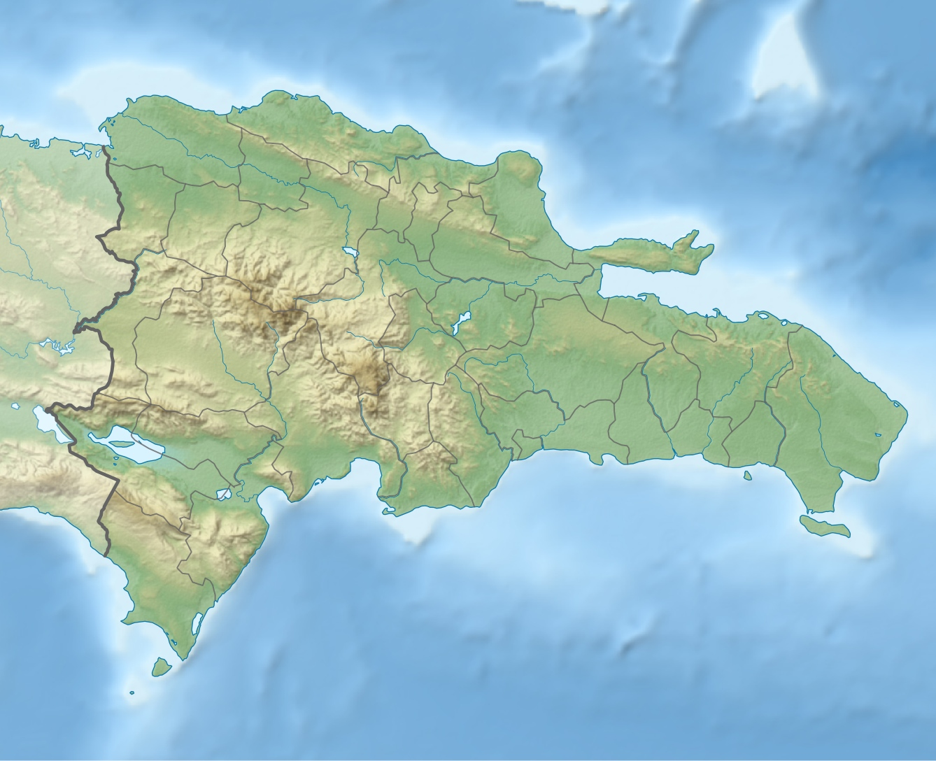 Physical Location map Dominican Republic with Provinces, Equirectangular projection, N/S stretching 105 %. Geographic limits of the map: N: 20.3° N S: 17.2° N W: 72.2° E O: 68.2° E